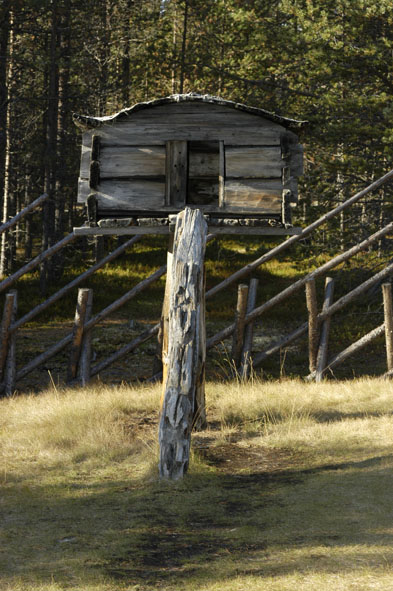 Sámi storage hut, Sámi museum Siida, Inari, Finland